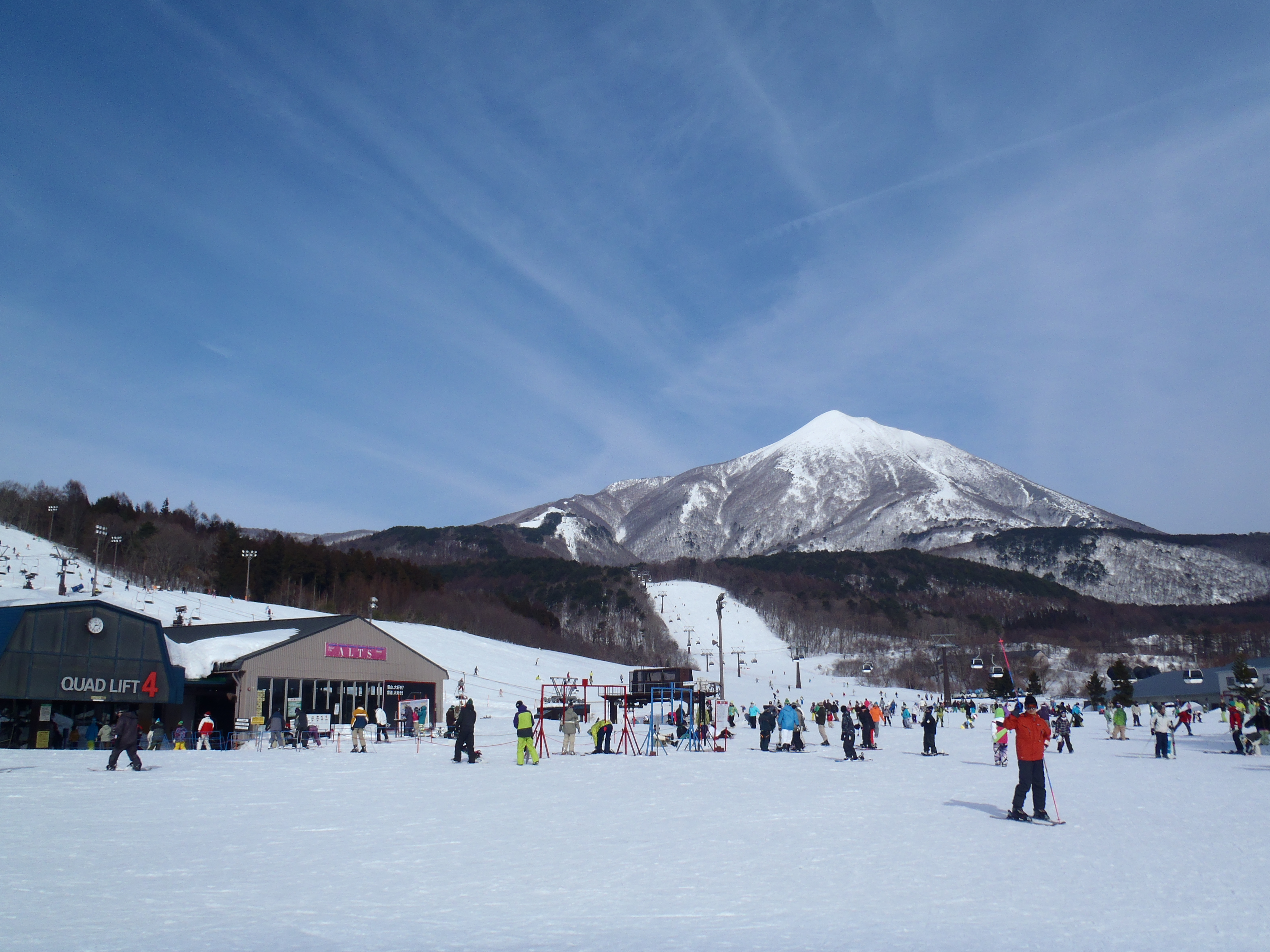 ALTS Bandai Snow Resort.